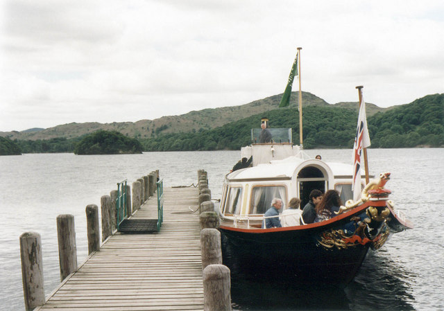 Gondola at Parkamoor Pier. Peel Island in the background.